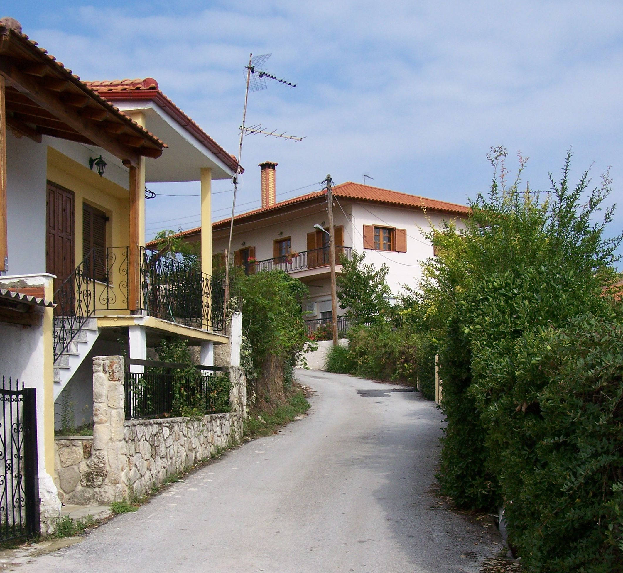 Lane in Kassandria